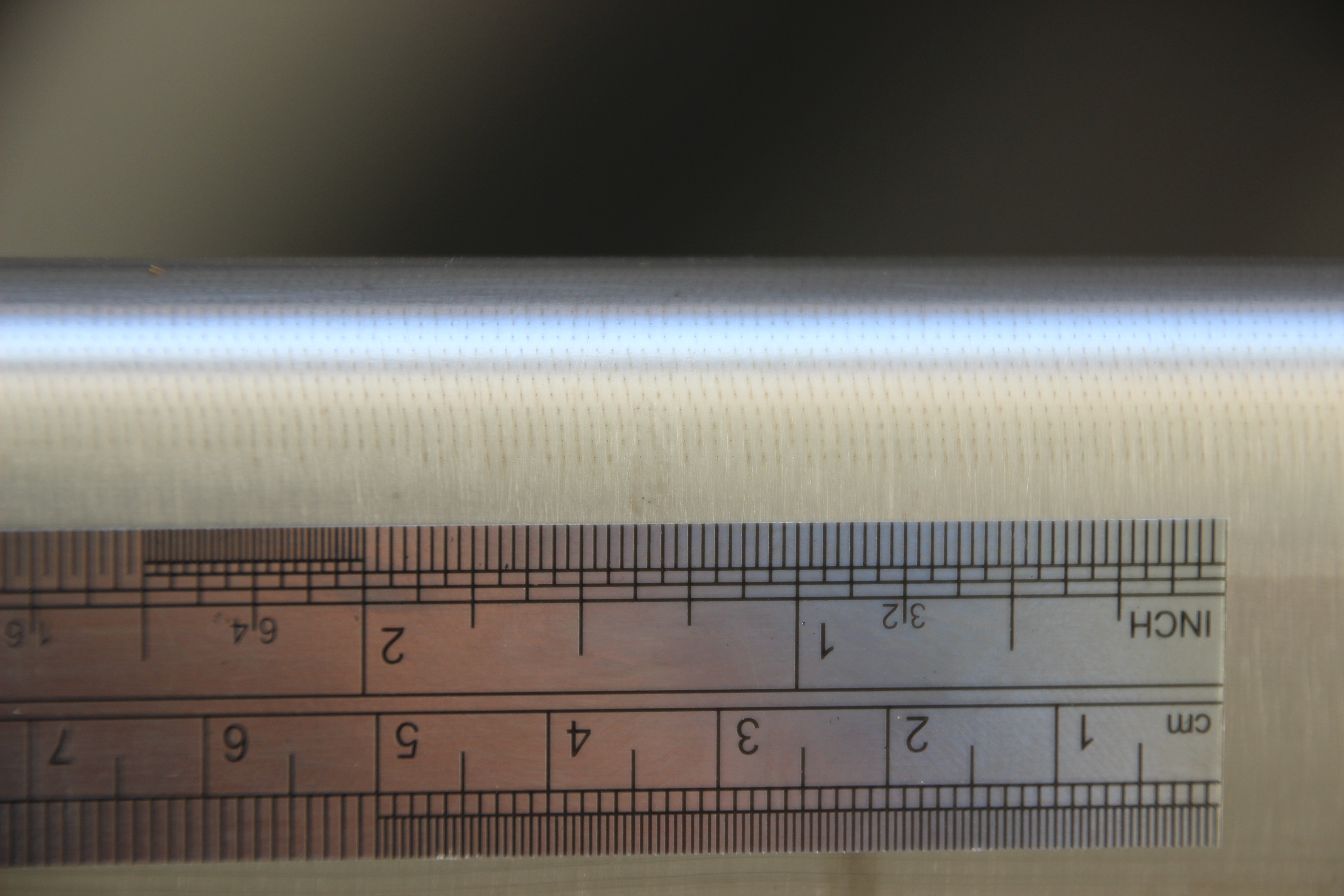 Close-up of the leading edge of the horizontal stabiliser of an aircraft equipped with a TKS fluid de-icing system. The leading edge has thousands of tiny holes through which the de-icing fluid is forced by an electric pump.